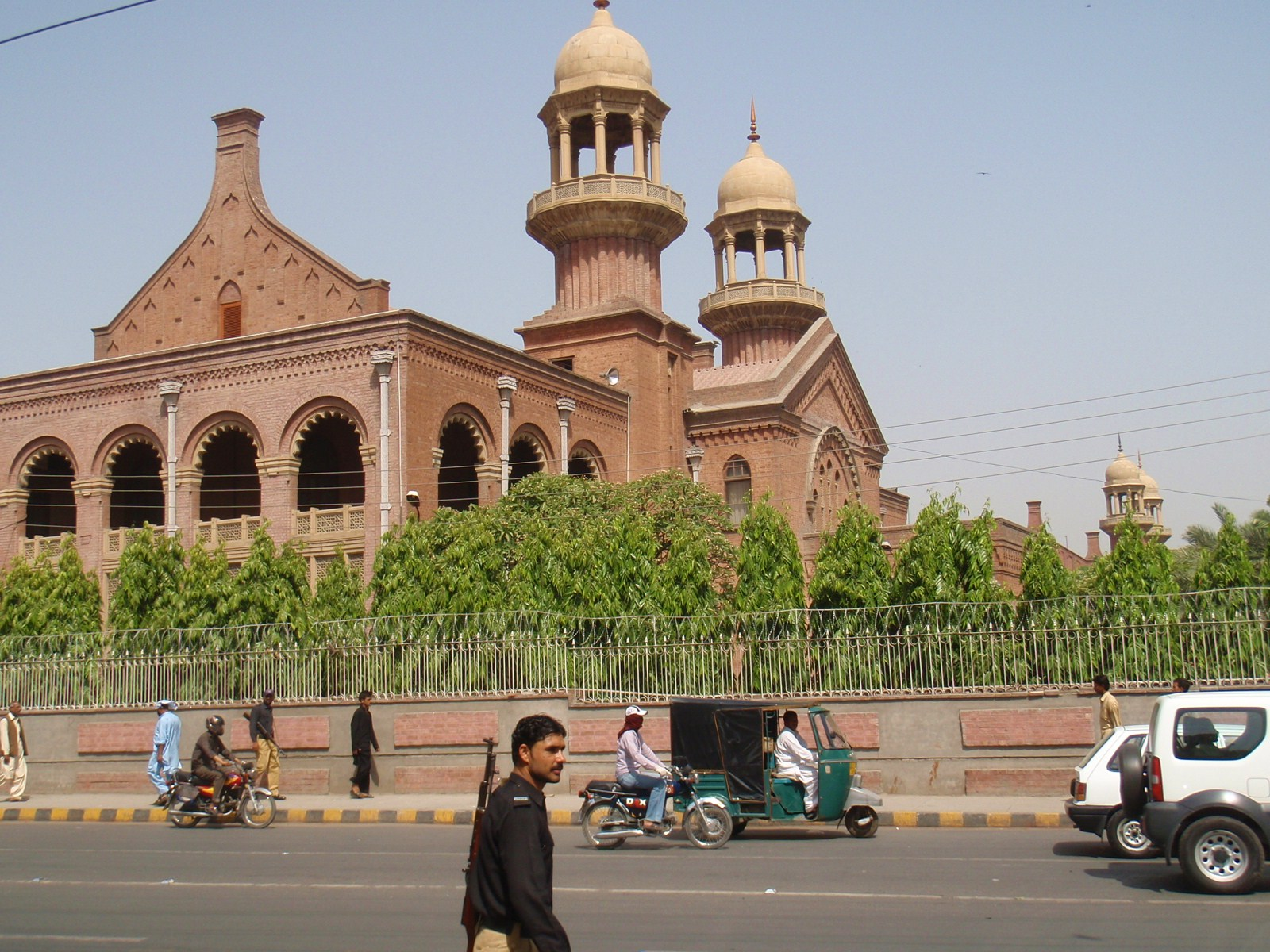 High Court- Lahore